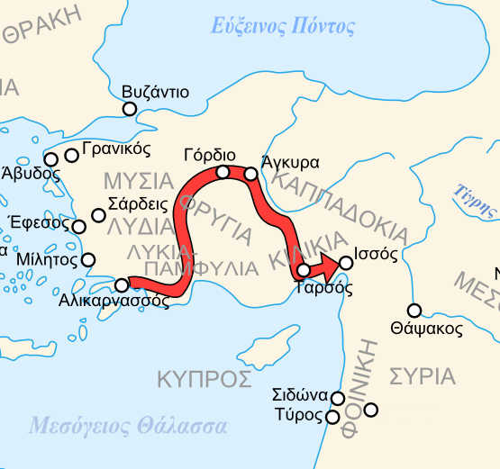 Map of a part of Alexander's route in Asia.